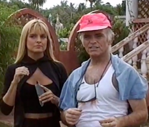 American actors Jillian Kesner and Michael Cavanaugh during the making of Operation Cobra, also known as Inferno, India, July, 1996.